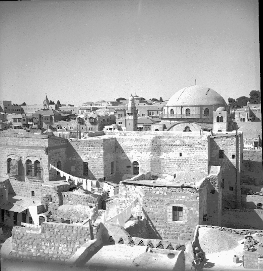 Jerusalem, Cities in Israel